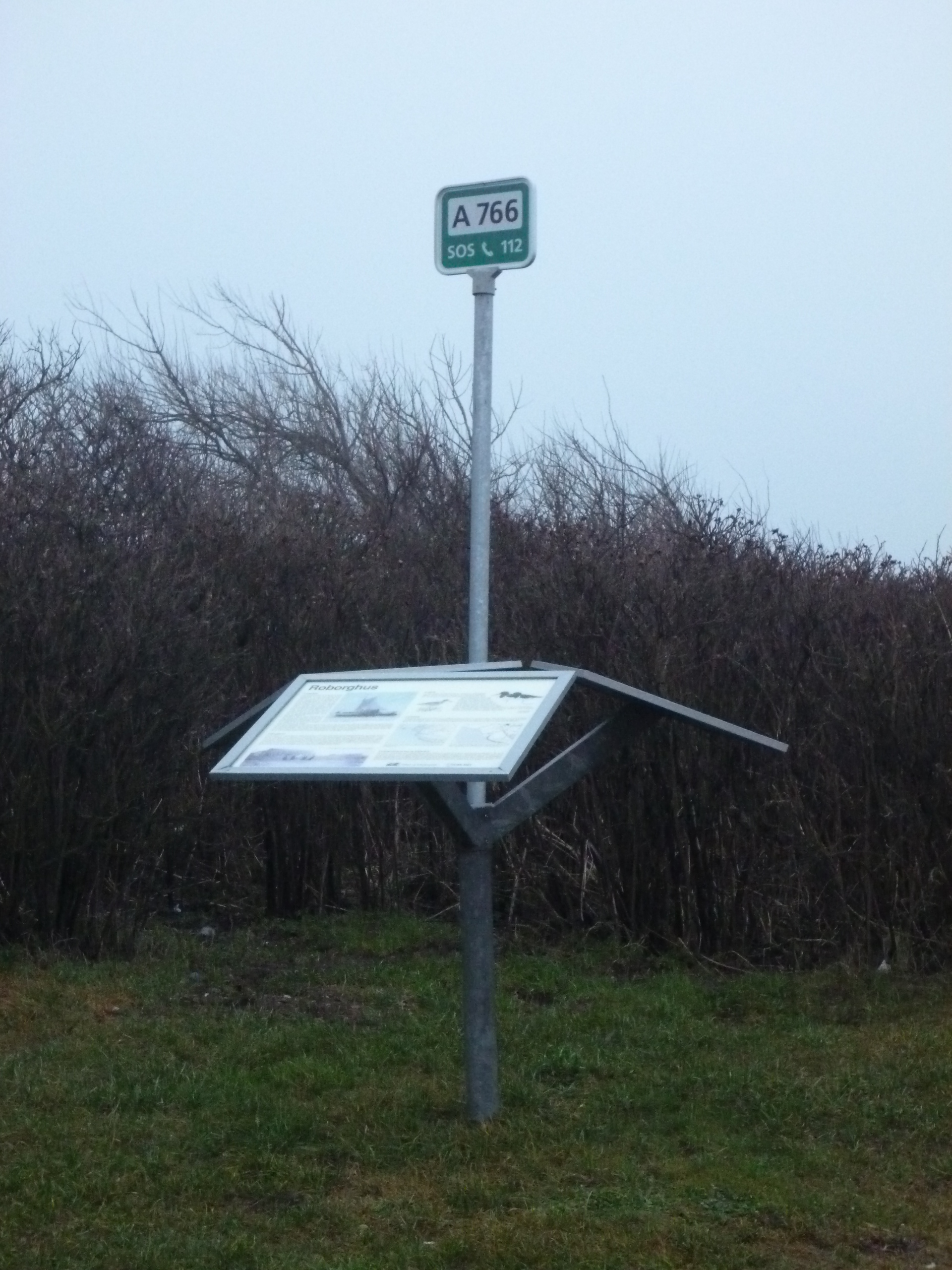 Signpost indicating emergency access point (strandnummer) A 766 at Roborg Ladeplads near Tjæreborg, south of Esbjerg, Denmark.